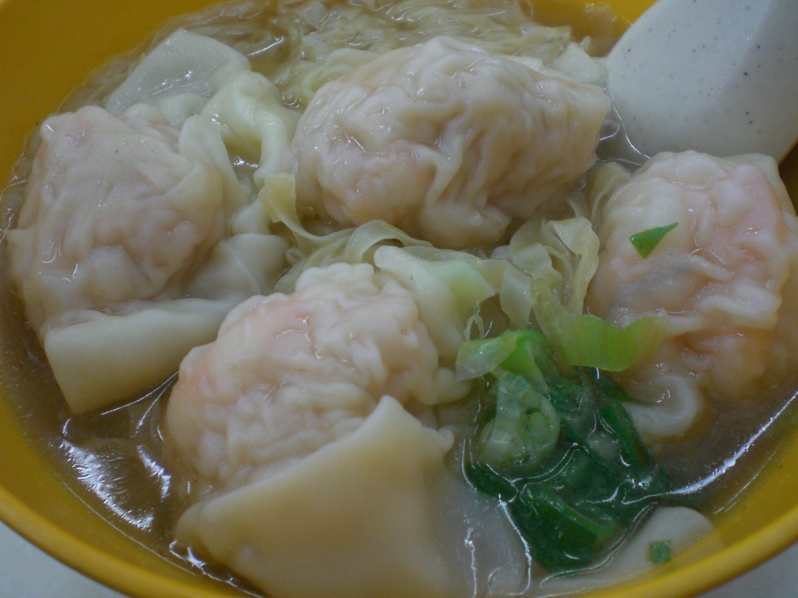 雲吞麵, Wonton noodle in a shop at Spring Garden Lane, Wan Chai, Hong Kong. Author= User:SHOLYWOD